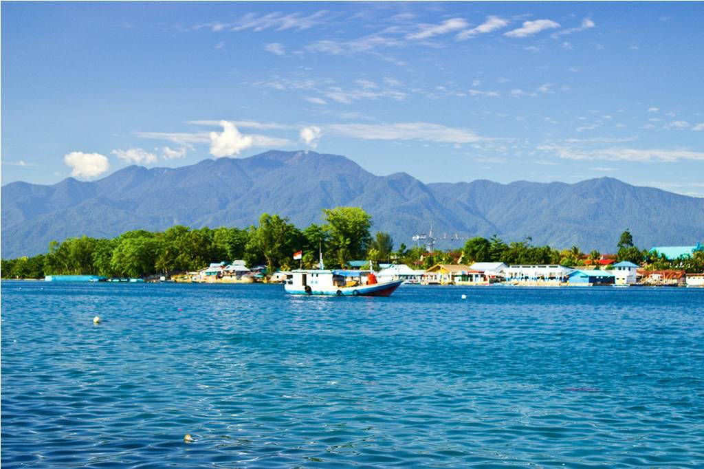 Pegunungan Arfak from the Doreri Bay near Manowari.